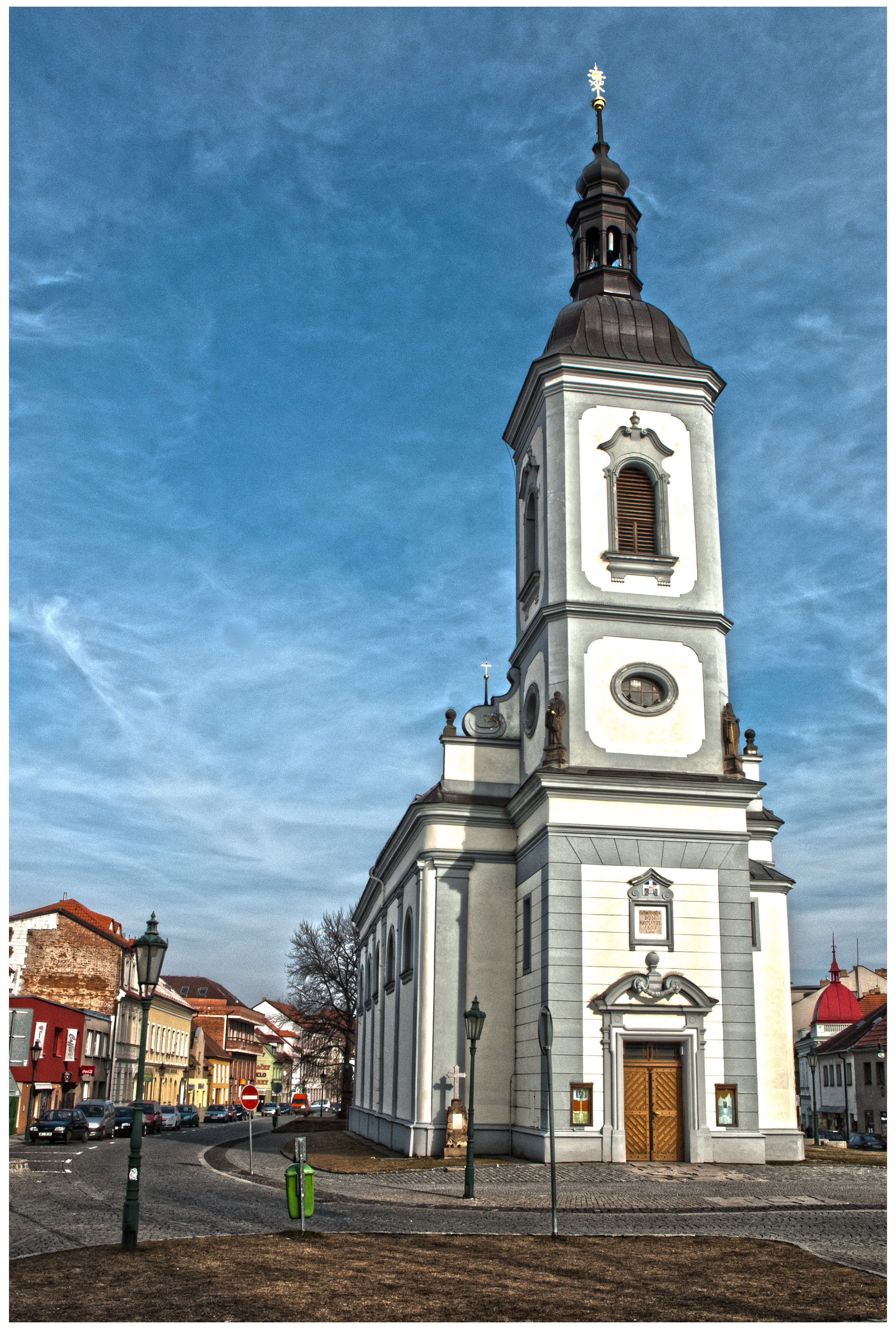 Říčany, Church of the Saints Peter and Paul.